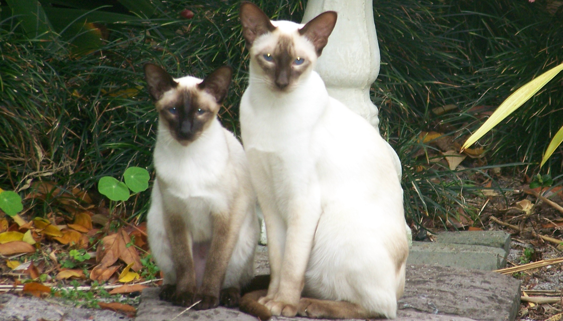 Two Siamese cats